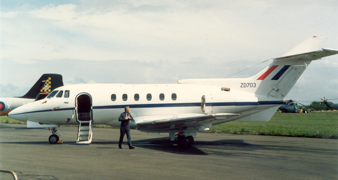 BAe 125 CC.3 ZD703 of No. 32 Squadron, RAF, Scottish International Air Show, Prestwick Airport, 1987.